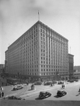 Looking southeast at the National Press Building at the corner of 13th Street NW and E Streets NW in Washington, D.C., in the United States. The National Press Building is owned by the National Press Club, and was built to house the club's headquarters and to generate income for the club. It was designed by the architectural firm of C.W. & George Rapp (also known as Rapp & Rapp). Construction began in early 1926. The cornerstone was laid by President Calvin on April 8, 1926. Construction was complete in December 1927, and the building dedicated by President Coolidge on February 4, 1928. The building was constructed of steel and reinforced concrete by the firm of George A. Fuller, Co. The 14-story (141 feet [42.9 metres]) structure is in the Beaux Arts style, clad in terra cotta and brick, and featured ornate piers and articulated spandrels. Atop a rusticated base was a section composed of shafts with rusticated quoins. The upper section was topped with a balustrade. The building was originally to have only 11 stories, but three additional stories and a movie theater were added to ensure the building's profitability. The entrance to the movie house, known as the Fox Theatre, was in the eastern facade through a rusticated neoclassical arch. The movie theater was removed in 1964. The building was slated for demolition in 1980. But in 1983, the National Press Club won approval for a 20 percent tax credit from the Pennsylvania Avenue National Historic Site (even though the building was not declared historic). A $100 million renovation, designed by HTB, Inc., from 1984 to 1985 stripped the original cladding from the building, accentuated the windows, and carved an opening in the corner (supported by piers). The eastern facade and "Fox Arch" are all that remains of the original facade as of 2012.